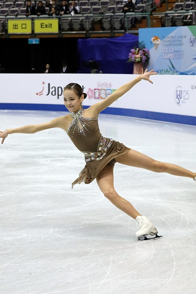 Photos – Junior World Championships 2017 – Ladies